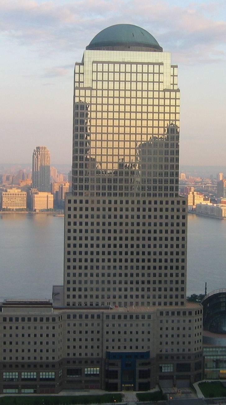 Two World Financial Center in New York City, in July 2006.